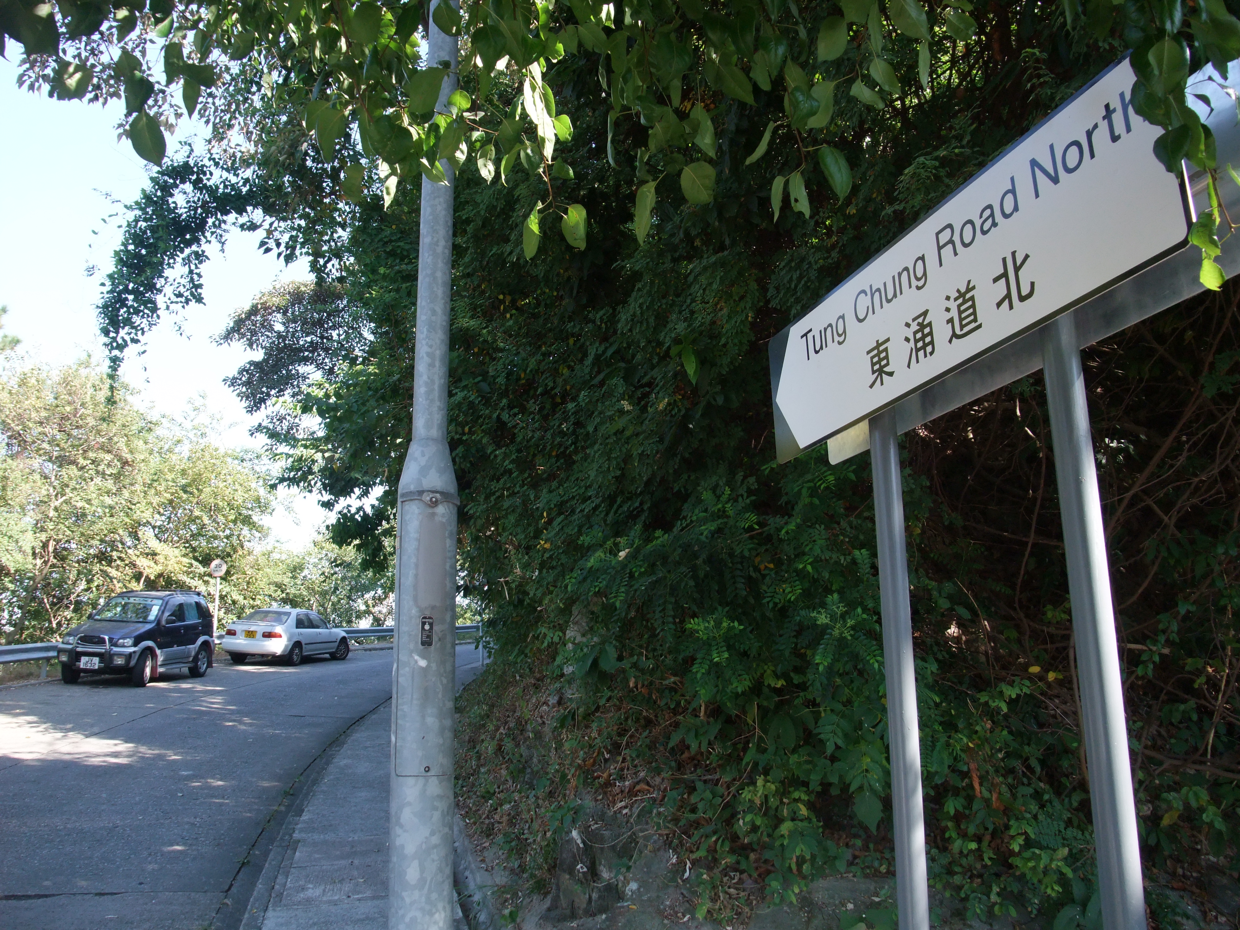 Photo of Tung Chung Road North